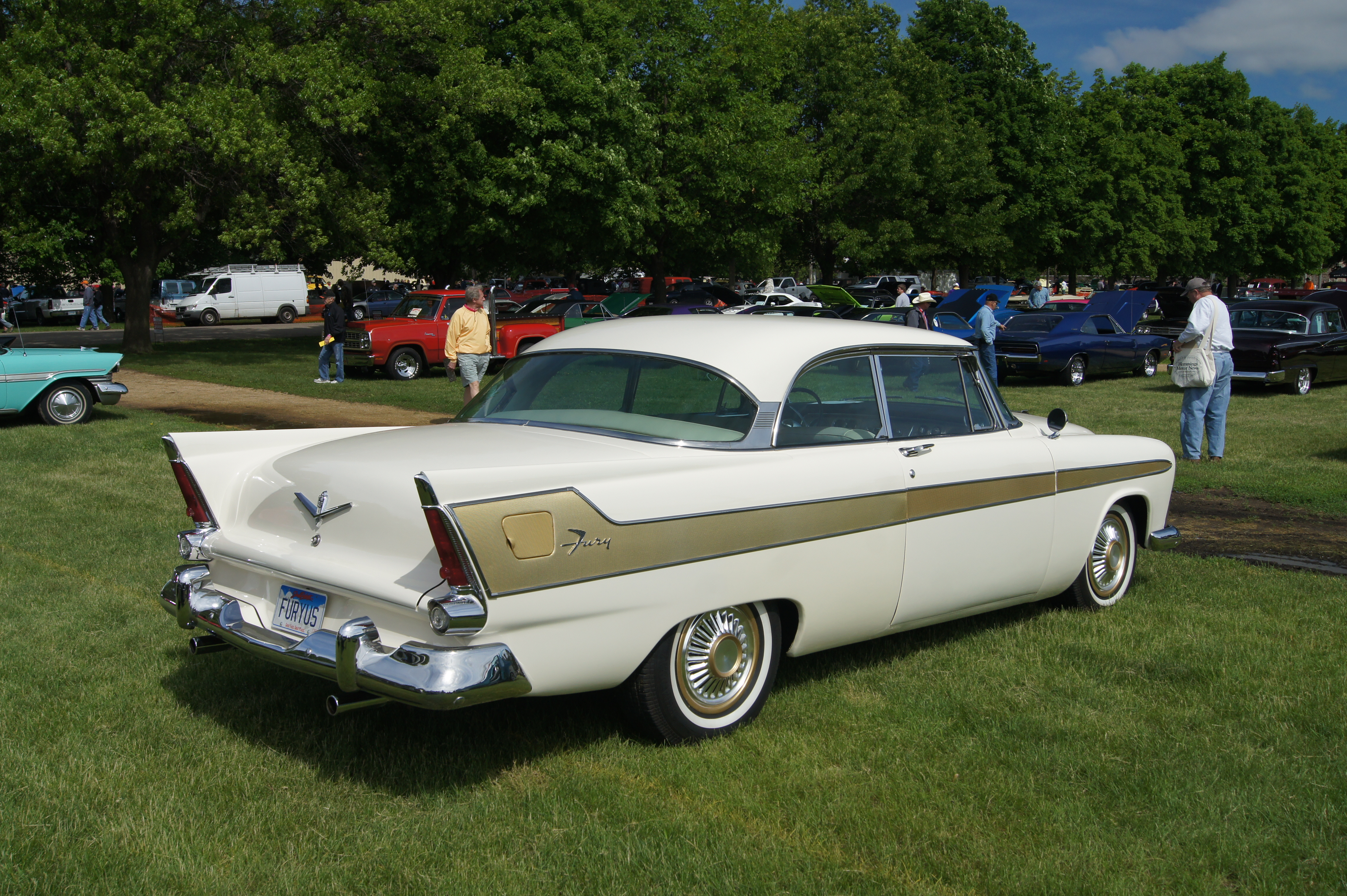 Midwest Mopars in the Park National Car Show & Swap Meet Dakota County Fairgrounds Farmington, Minntesota May 30 & 31, 2015 Click here for more car pictures at my Flickr site.